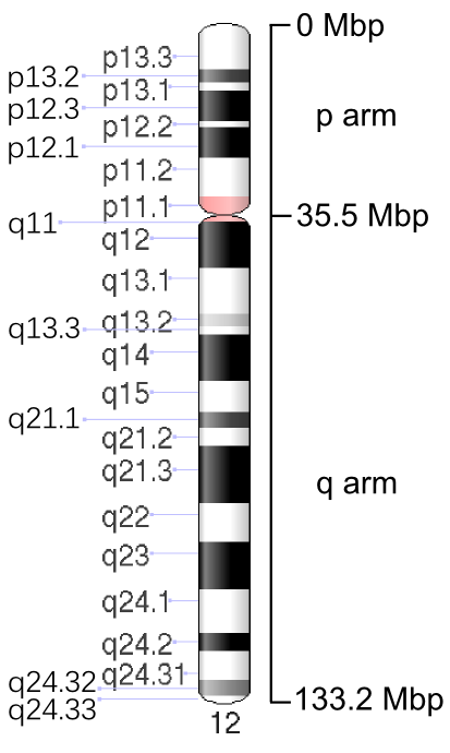 Ideogram of human chromosome 12. G-band, 550 bphs (bands per haploid set). Black and gray: Giemsa positive. Red: Centromere. Light blue: Variable region. Dark blue: Stalk. Mbp: Mega base pairs.